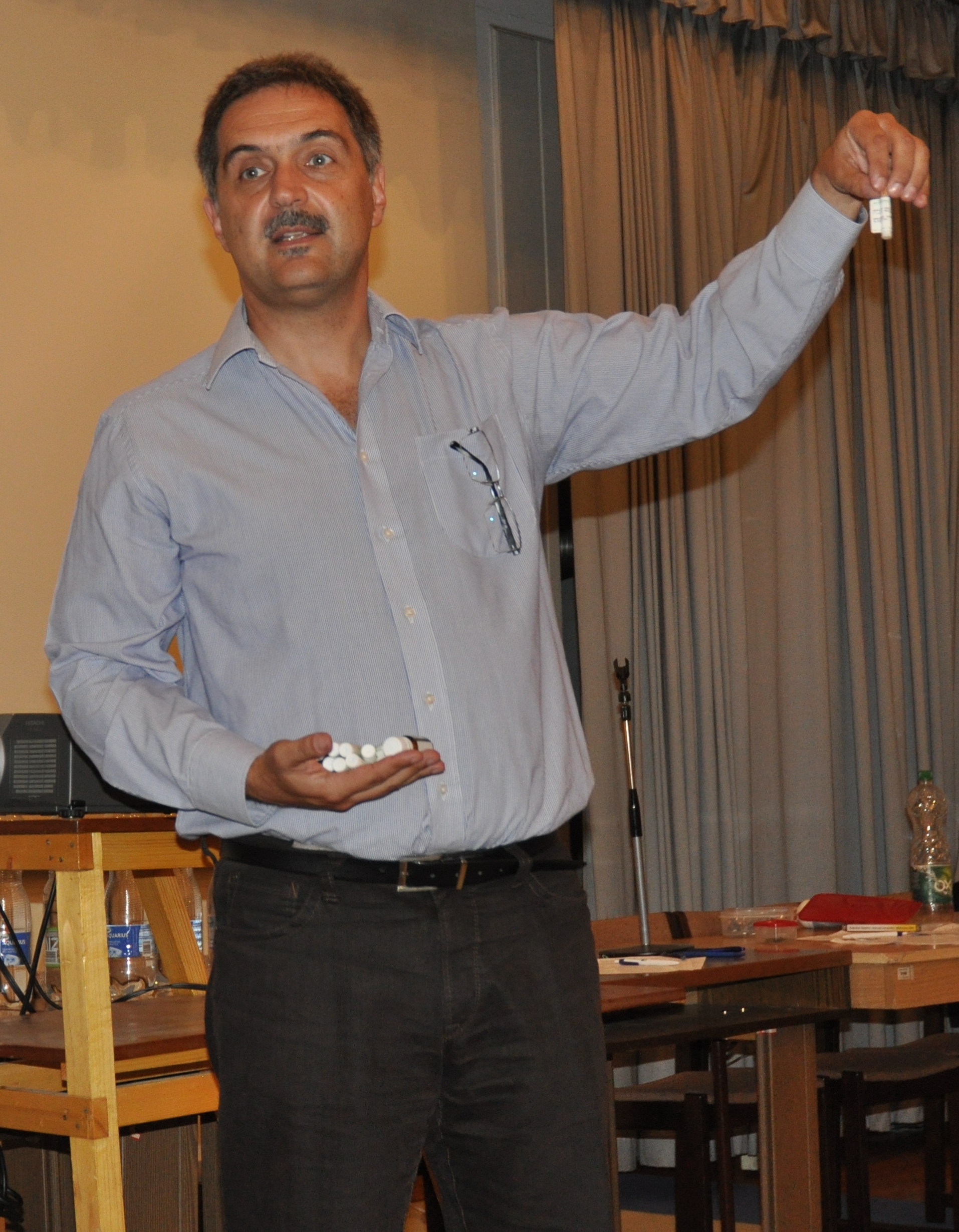 Gábor Hraskó giving a talk on Homeopathy at "Skeptic Magician's Night", an event organised by the Hungarian Skeptic Society on 15th September 2012.